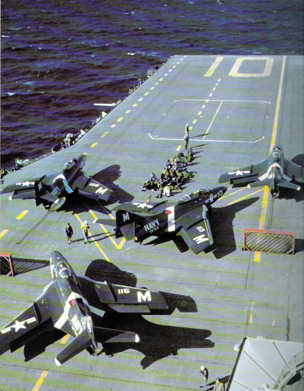 Four U.S. Navy Grumman F9F-6 Cougars of Fighter Squadron 24 (VF-24) "Corsairs" aboard the aircraft carrier USS Yorktown (CVA-10). VF-24 assigned to Carrier Air Group 2 (CVG-2) aboard the Yorktown for a deployment to the Western Pacific from 3 August 1953 to 3 March 1954. VF-24 was redesignated VF-211 on 9 March 1959. In 1960 the squadron nickname was changed to Fighting Checkmates.